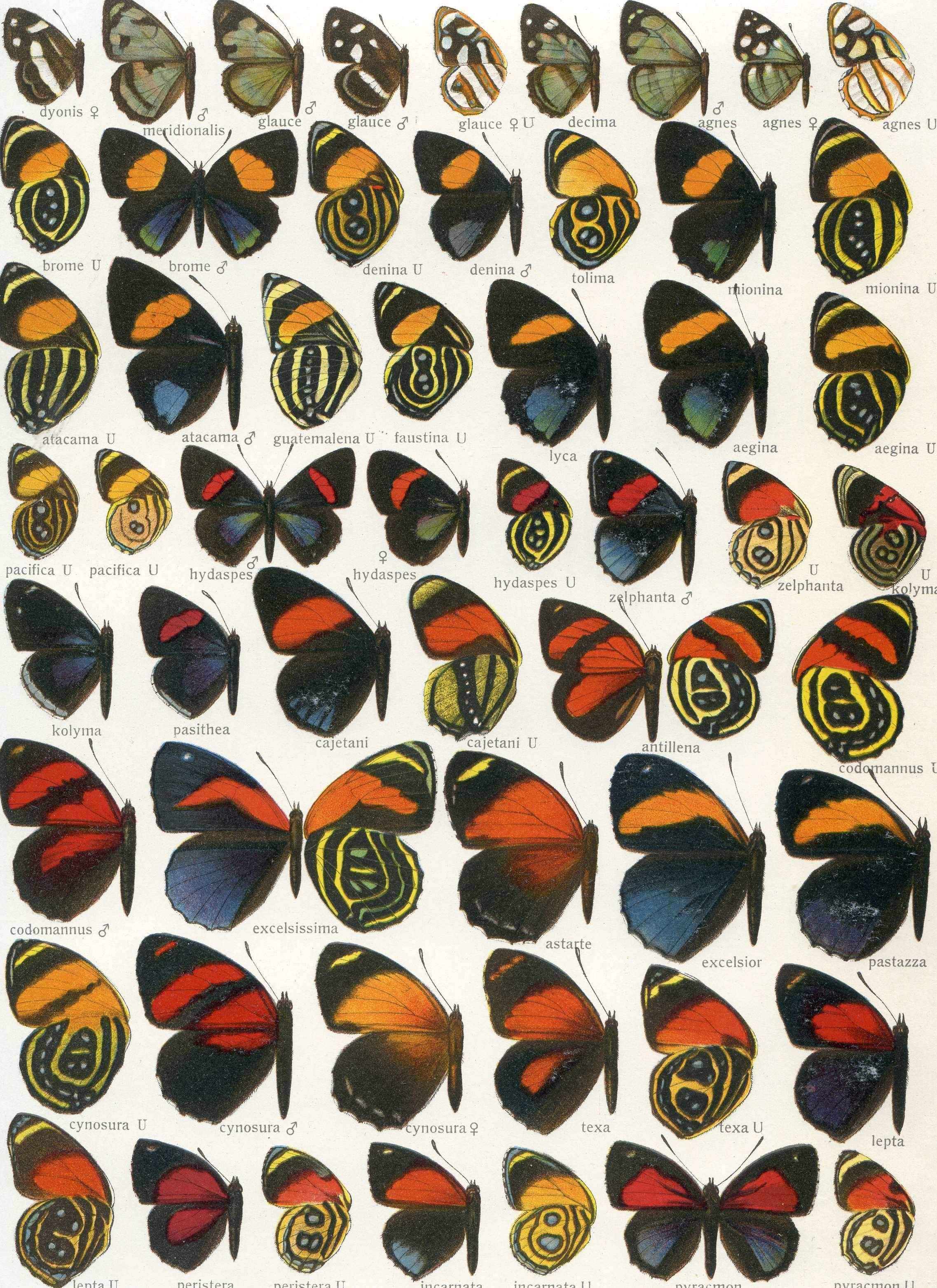 Plate from Seitz, A. ed. ( 1907) Die Großschmetterlinge der Erde, Verlag Alfred Kernen, Stuttgart Band 5: Abt. 3, Die exotischen Großschmetterlinge, Die Großschmetterlinge des amerikanischen Faunengebietes, The Macrolepidoptera of the world : a systematic account of all the known Macrolepidoptera: The Macrolepidoptera of the American faunistic region.Volume 5 part 3 text online read text See The Global Lepidoptera Names Index for valid names Dynamine dyonis Geyer, 1837 Dynamine meridionalis Röber, 1915 Dynamine artemisia glauce (Bates, 1865) Eubagis decima Hewitson, 1852 synonym of Dynamine myrson (Doubleday, 1849) Dynamine setabis agnes Röber, 1915 Catagramma brome Boisduval, 1836 Callicore tolima denina (Hewitson, 1858) Callicore tolima (Hewitson, 1851) Callicore lyca mionina (Hewitson, 1855) Callicore atacama (Hewitson, 1851) Callicore tolima guatemalena (Bates, 1866) Callicore atacama faustina (Bates, 1866) Callicore lyca (Doubleday, [1847]) Callicore lyca aegina (C. & R. Felder, 1861) Callicore tolima pacifica (Bates, 1866) Callicore hystaspes (Fabricius, 1781) Callicore hystaspes zelphanta (Hewitson, 1858) Catacore kolyma (Hewitson, 1851) Catacore kolyma pasithea (Hewitson, 1864) Callicore felderi cajetani (Guenée, 1872) Callicore astarte antillena Kaye, 1914 Callicore astarte codomannus (Fabricius, 1781) Callicore excelsior excelsissima (Staudinger, [1885]) Callicore astarte (Cramer, [1779]) Callicore excelsior (Hewitson, 1858) Callicore excelsior pastazza (Staudinger, 1886) Callicore cynosura (Doubleday, [1847]) Callicore texa (Hewitson, 1855) Catagramma lepta Hewitson, 1868 synonym for Callicore texa maimuna (Hewitson, 1858) Paulogramma pyracmon peristera (Hewitson, 1853) Callicore eunomia incarnata (Röber, 1915) Paulogramma pyracmon (Godart, [1824])